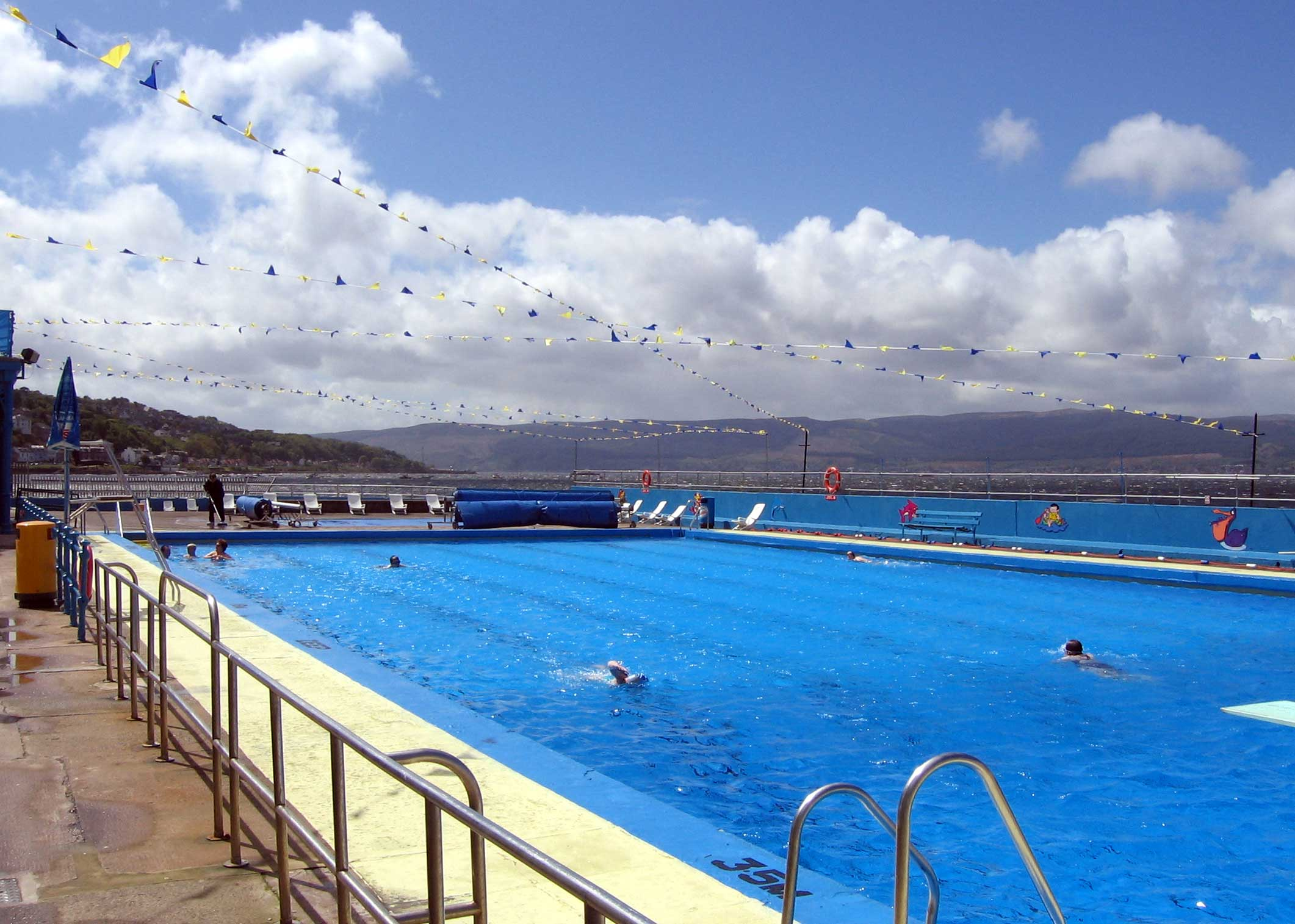 Gourock outdoor swimming pool, with views out over the Firth of Clyde in Scotland